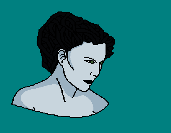 Jadis, the White Witch. By Matheus95, created by C.S.Lewis.